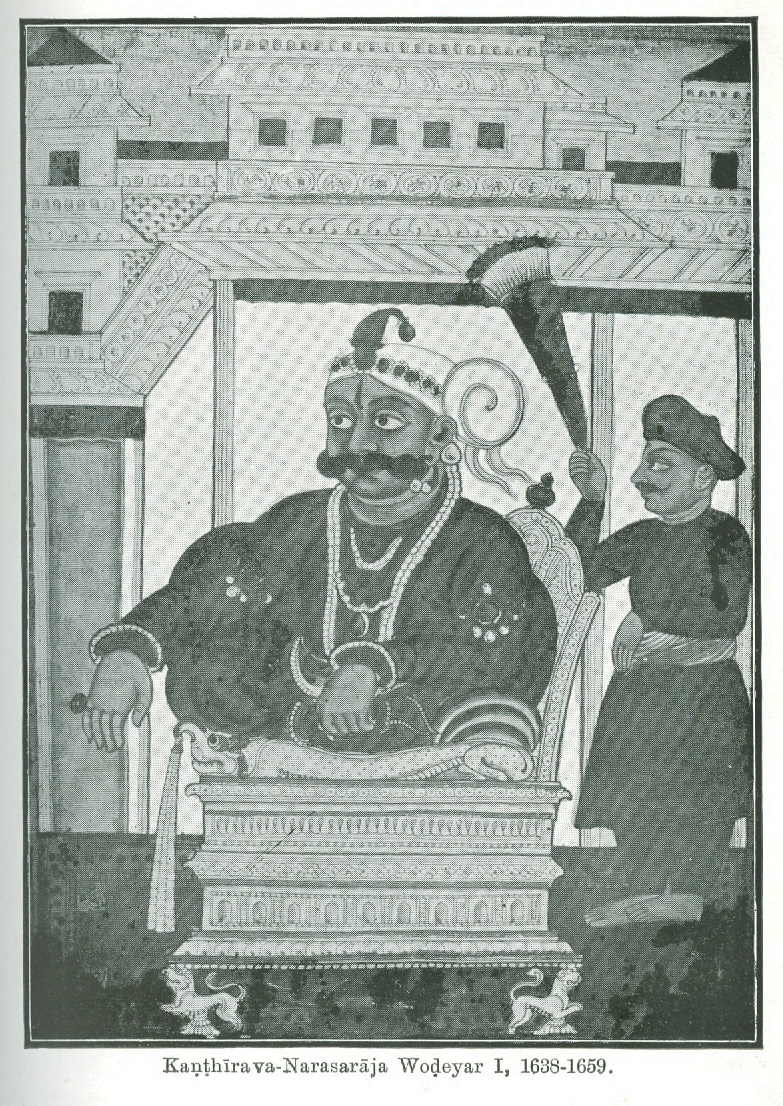 This is a photograph of early miniature of Mysore ruler, Kanthirava Narasaraja I.